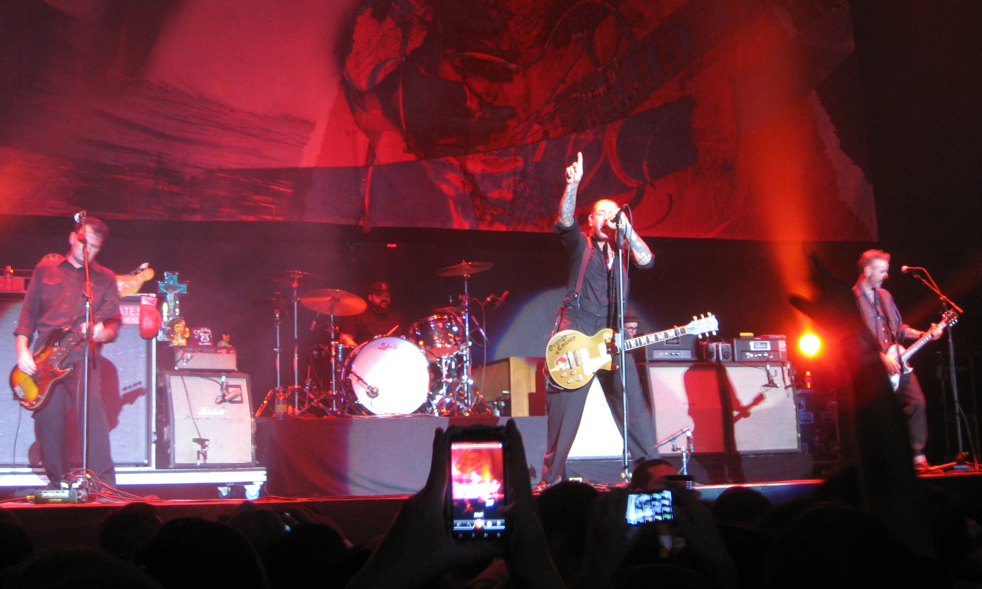 Social Distortion performing at the Valley View Casino Center in San Diego, California on December 11, 2011 as part of radio station 91X's "Wrex the Halls" concert. Left to right: bassist Brent Harding, drummer David Hidalgo, Jr., singer/guitarist Mike Ness, and guitarist Jonny "2 Bags" Wickersham.